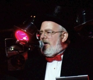 Dr. Demento at B.B. King Blues Club & Grill in New York, NY on August 15, 2004.Photo by David Rossi User:Elvis9227